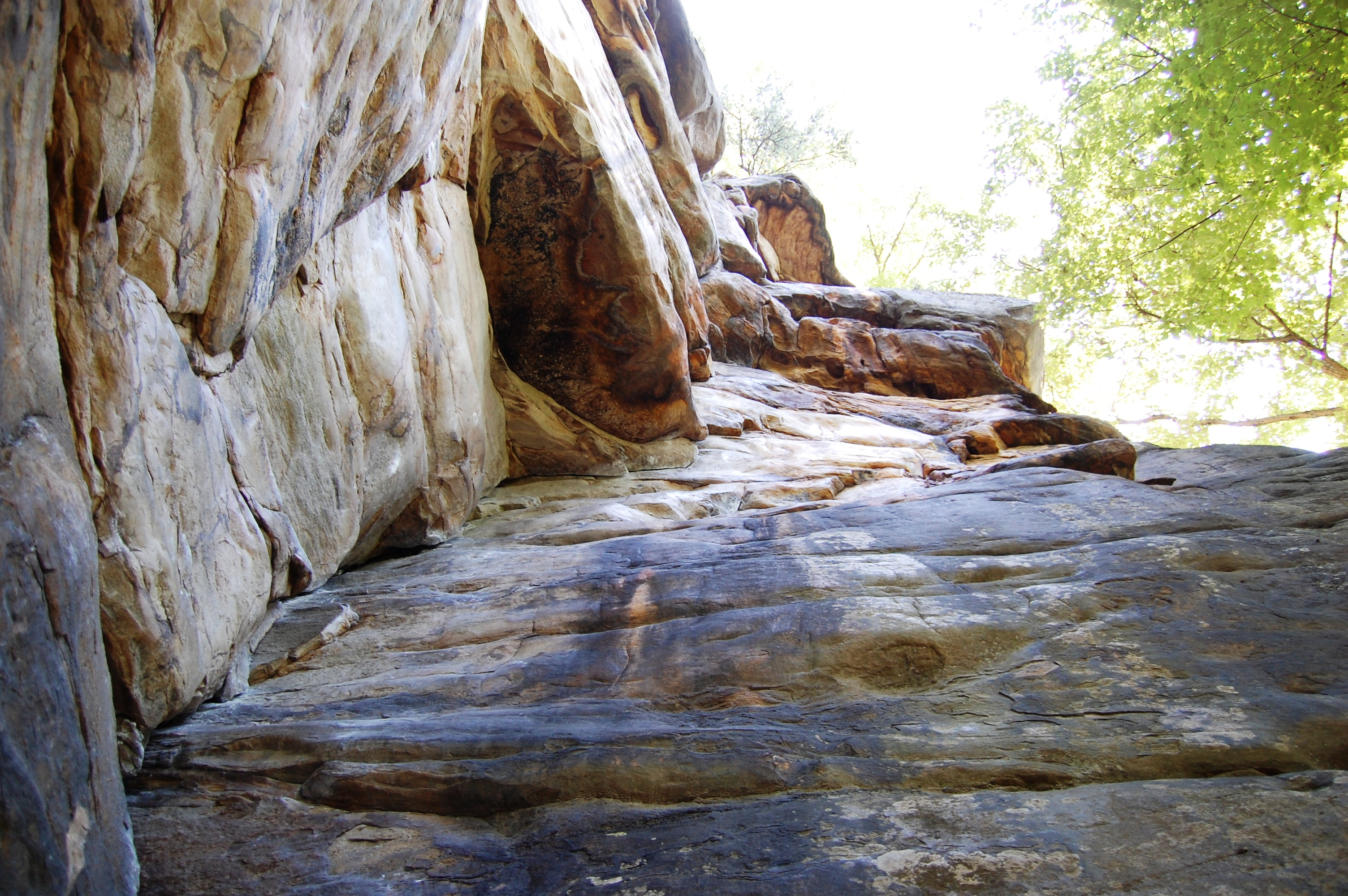 Classic climb, Four sheets to the wind (5.9) at Junkyard cliff in New River Gorge, West Virginia, USA. The rock type is Nuttall sandstone.